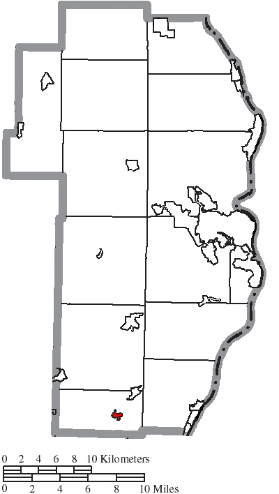 Map of the municipal and township boundaries of Jefferson County, Ohio, United States, as of the 2000 census, with the location of the village of Mount Pleasant highlighted. Township borders are shown only in unincorporated areas in order to differentiate incorporated and unincorporated areas more clearly.